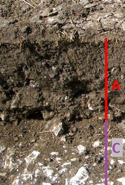 Redzina - dark, grayish-brown, humus-rich, intrazonal soil.